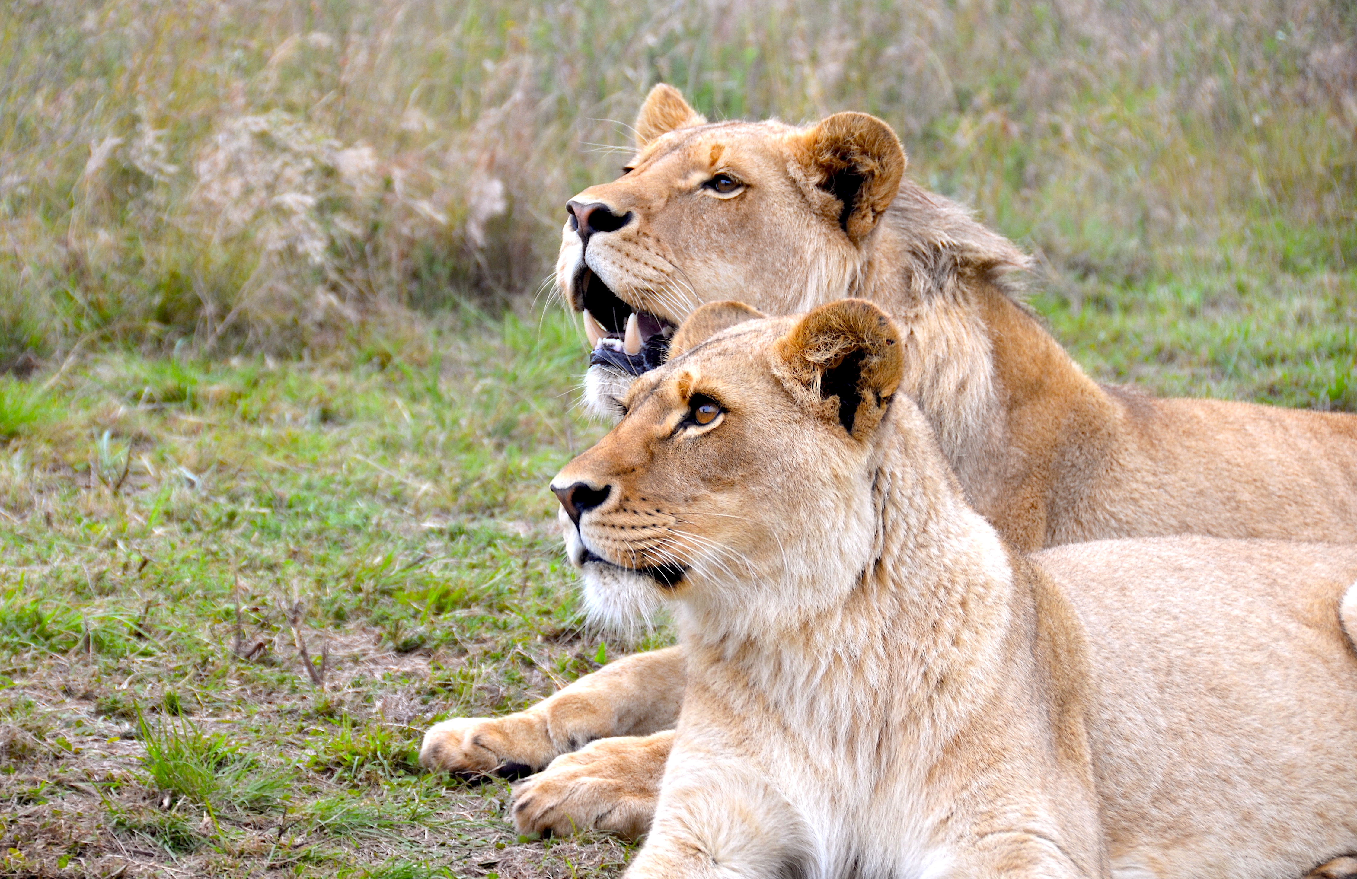 Lion couple at Botlierskop Game Reserve in South Africa